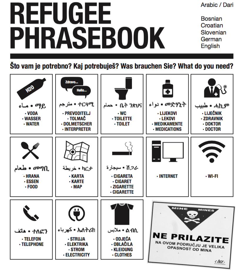 The cover of refugee phrasebook (slovenian version) in October 2015. The cover contains icons of important phrases and a warning sign for landmines